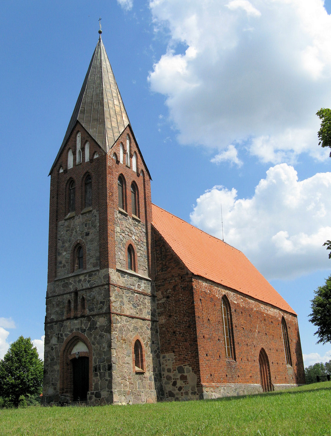 Church in Dobbin, disctrict Rostock, Mecklenburg-Vorpommern, Germany